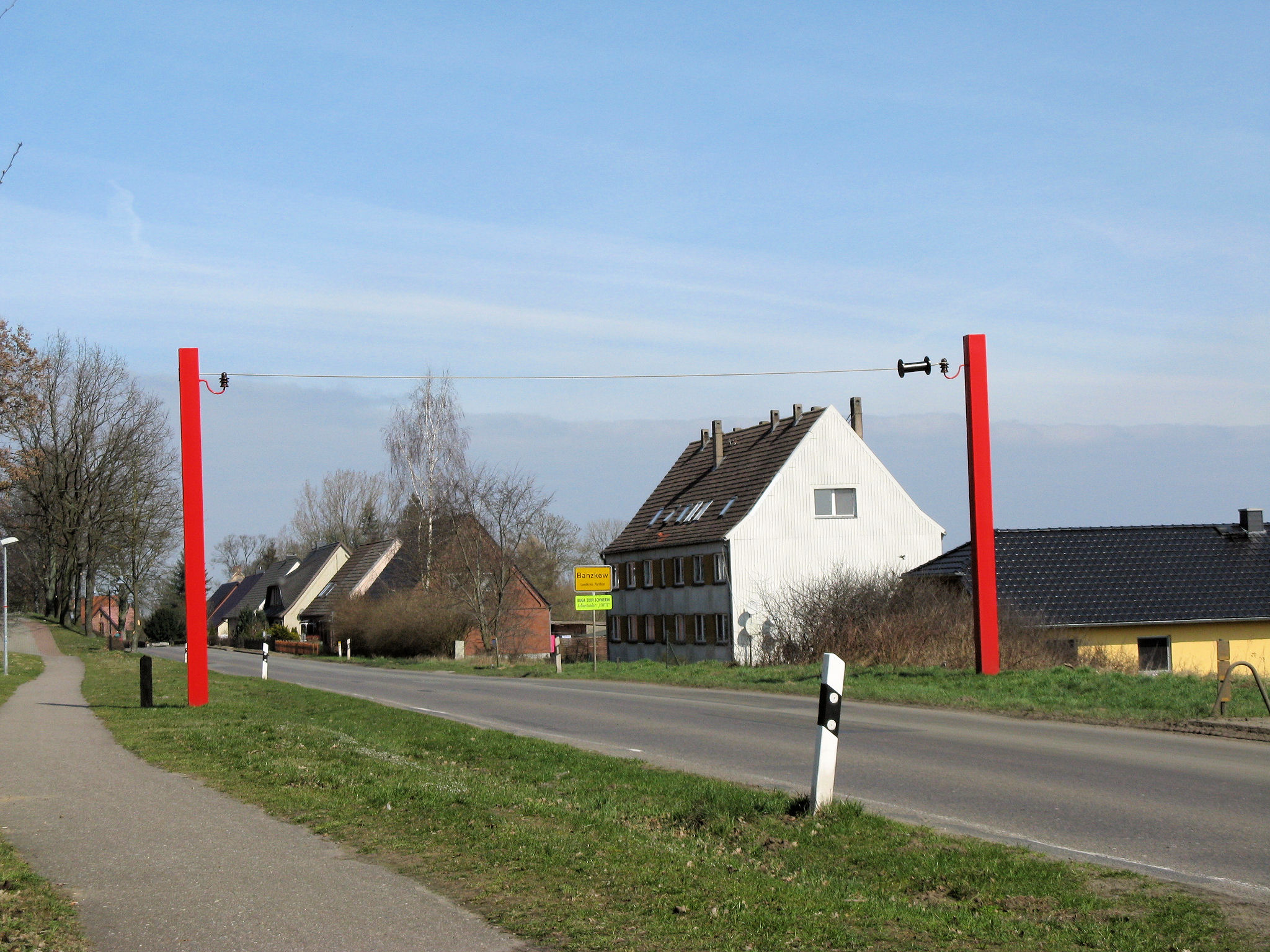 Electric fence sculpture in Banzkow, district Ludwigslust-Parchim, Mecklenburg-Vorpommern, Germany